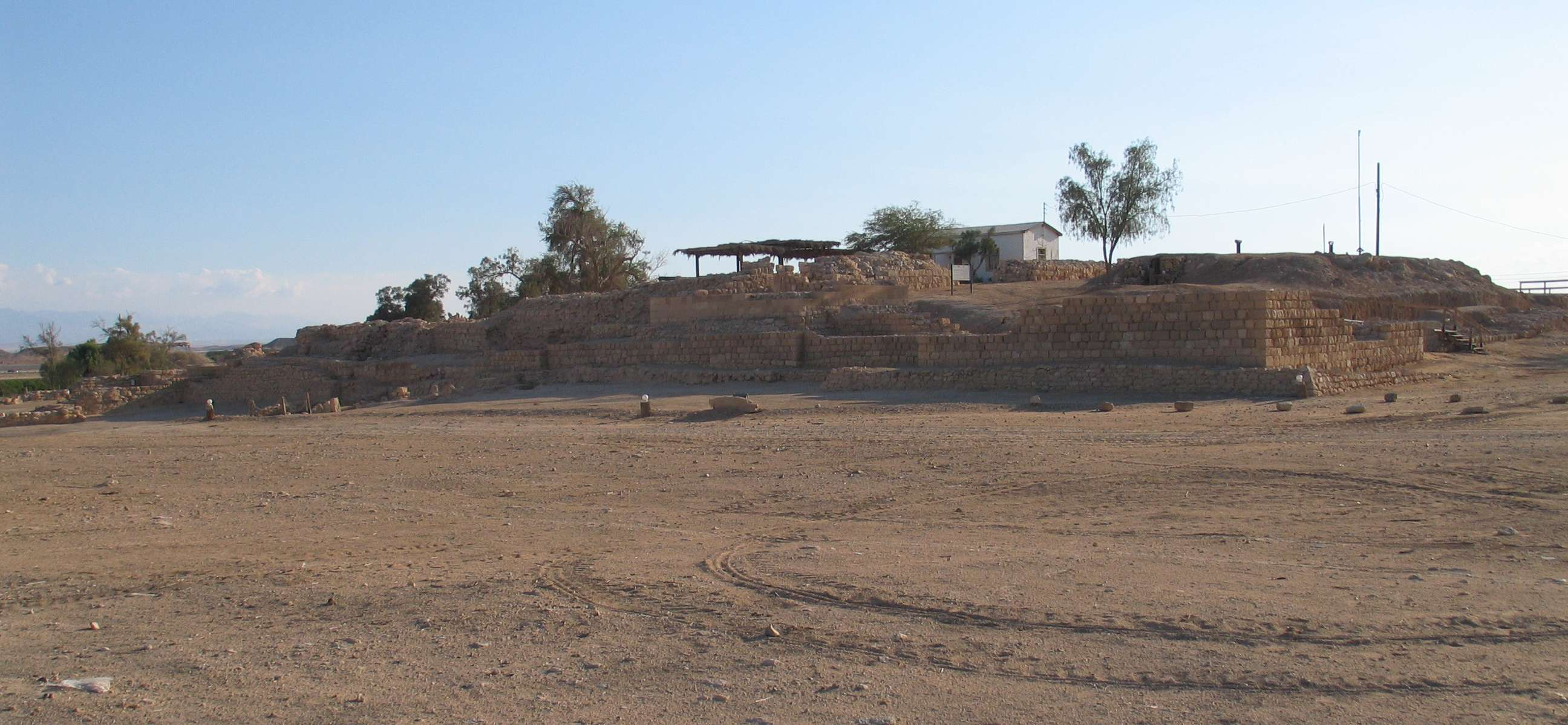 Metsad Hatseva, Israel.